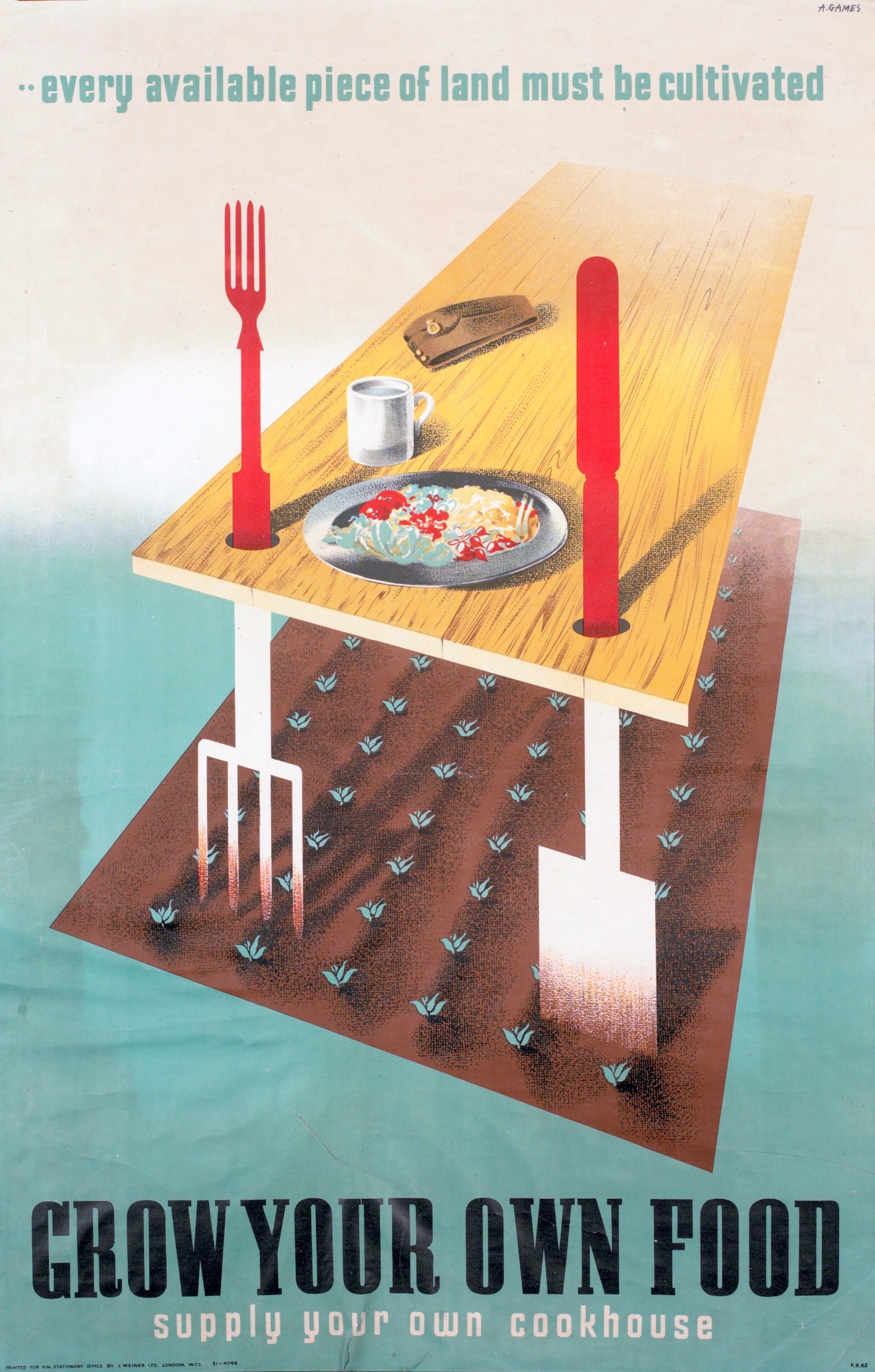 Grow Your Own Food whole: the image occupies the whole. The title is integrated and positioned in the lower quarter, in black. The text is integrated and placed across the top edge, in green, and across the bottom edge, in white. All set against a white and green background. image: a depiction of a small patch of cultivated land from which new crops sprout. A garden fork and spade stand upright in the soil, holding up one end of a table. The handles of the fork and spade penetrate the table and form into cutlery: a fork and a knife. The table is set with a plate of food and a mug, next to which a soldier's cap lies. text: A. GAMES ..every available piece of land must be cultivated GROW YOUR OWN FOOD supply your own cookhouse PRINTED FOR H.M STATIONERY OFFICE BY J. WEINER LTD., LONDON. W.C.1. 51-4749 P.R.62